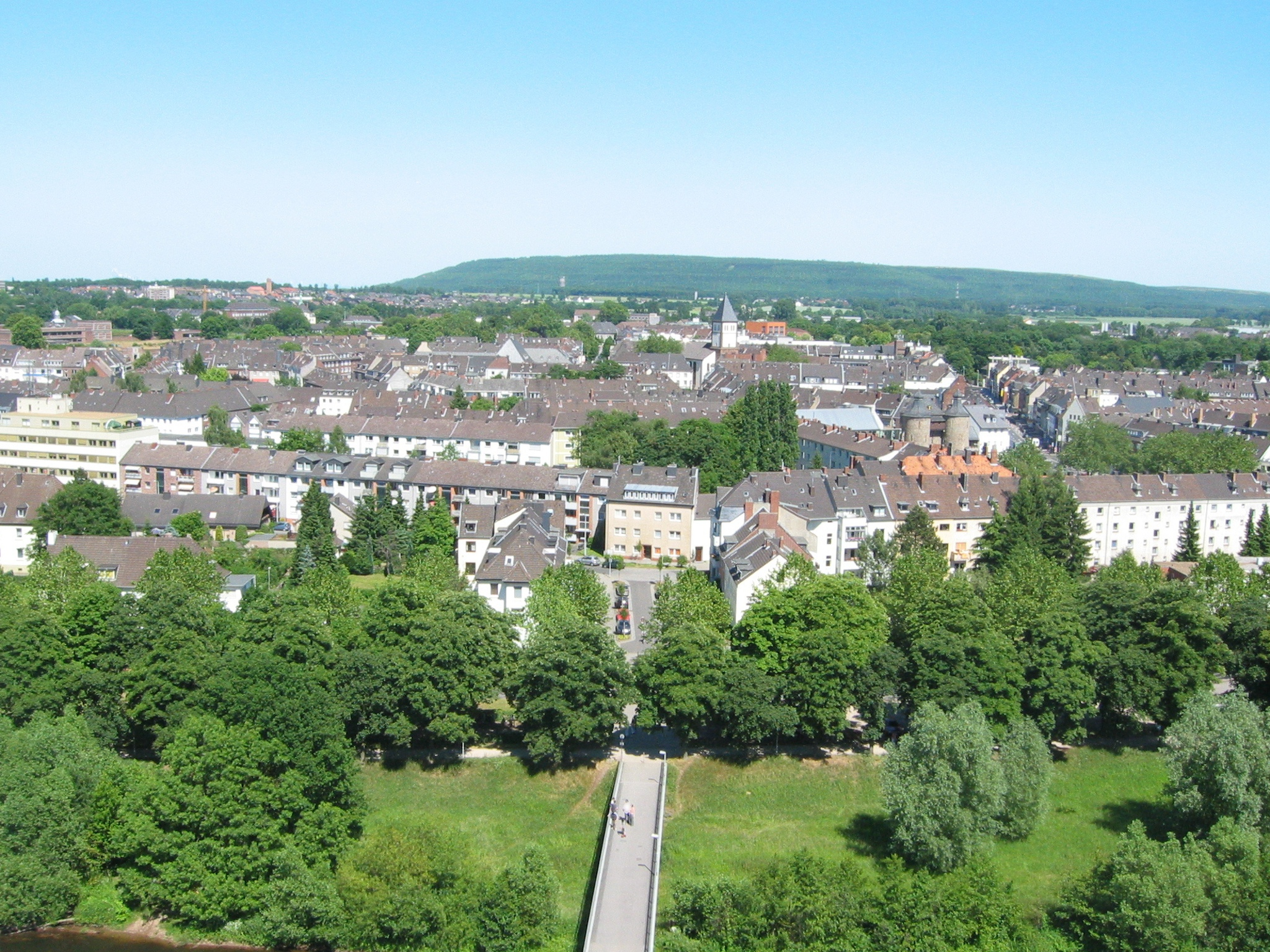 City of Jülich - seen from a ferris wheel